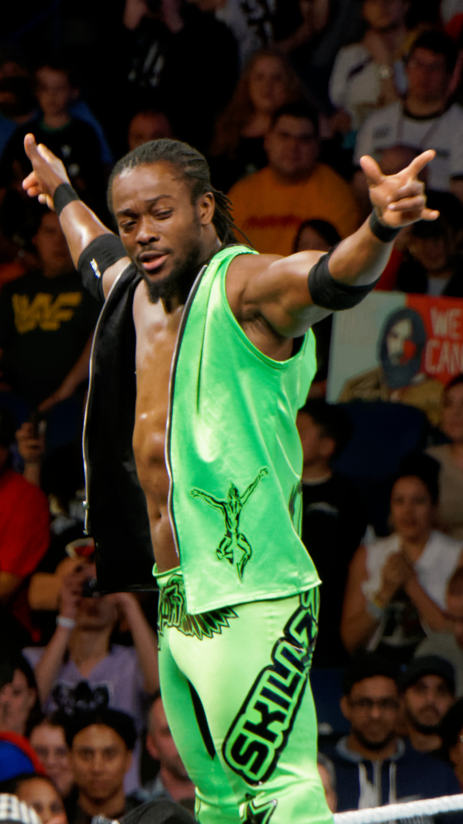 Kofi in April 2014.